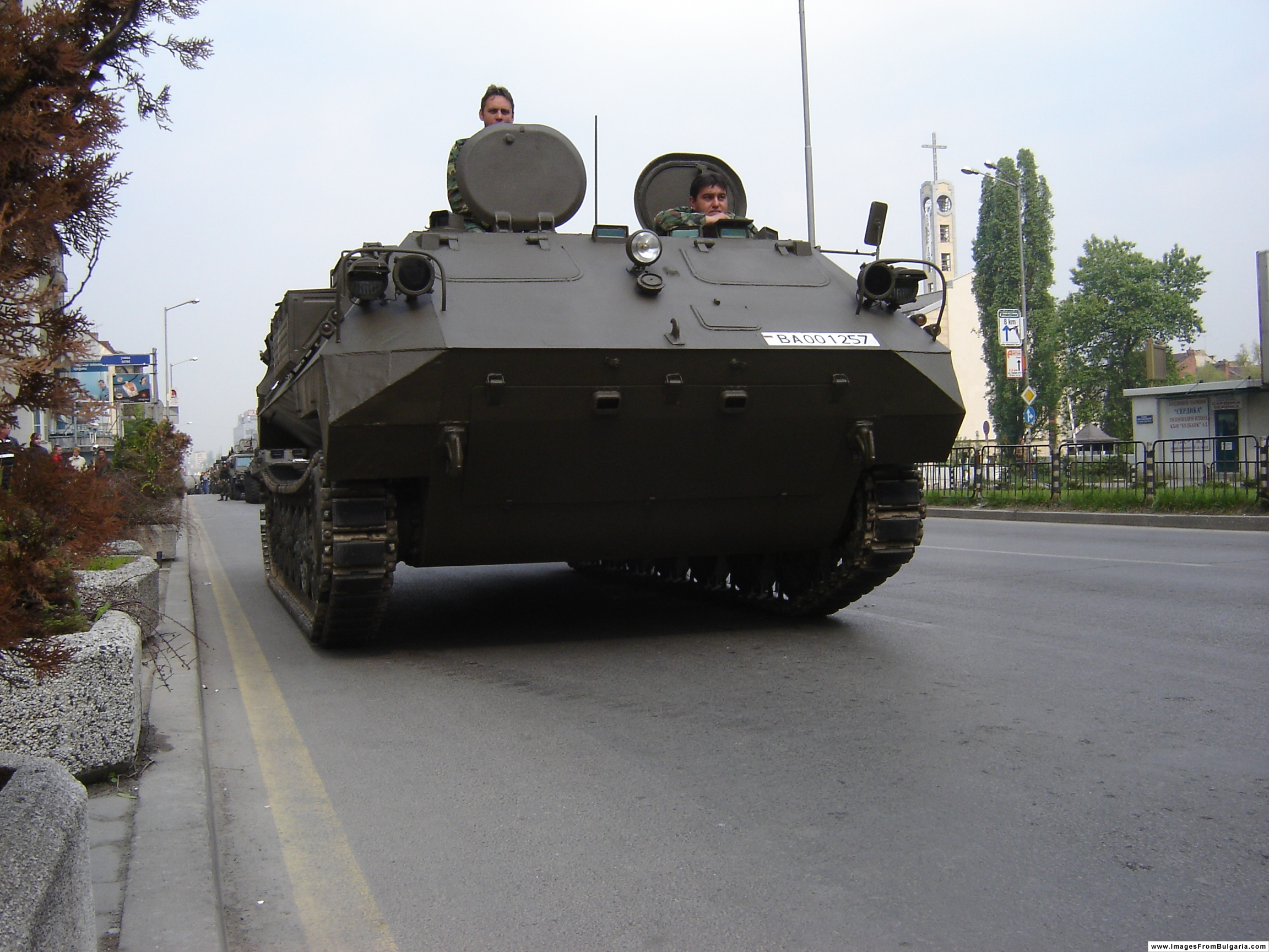 MT-LBu of the Bulgarian army, 2006 Army day parade preparations.